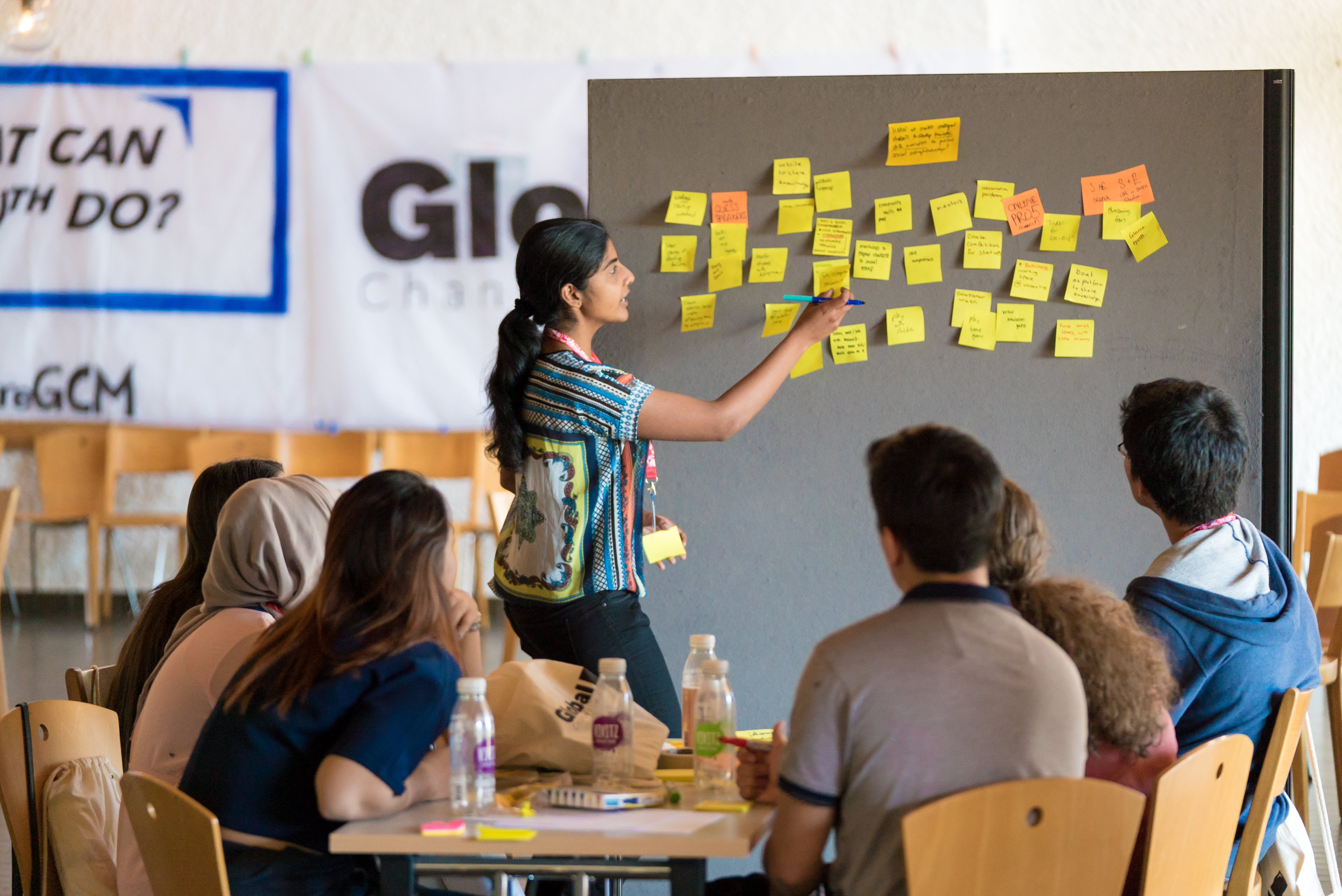 A photo of a working group at the Global Youth Summit 2017.